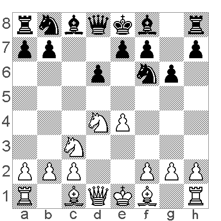 chess diagram Dragon in Sicilian defence Source: CBlight + my processing